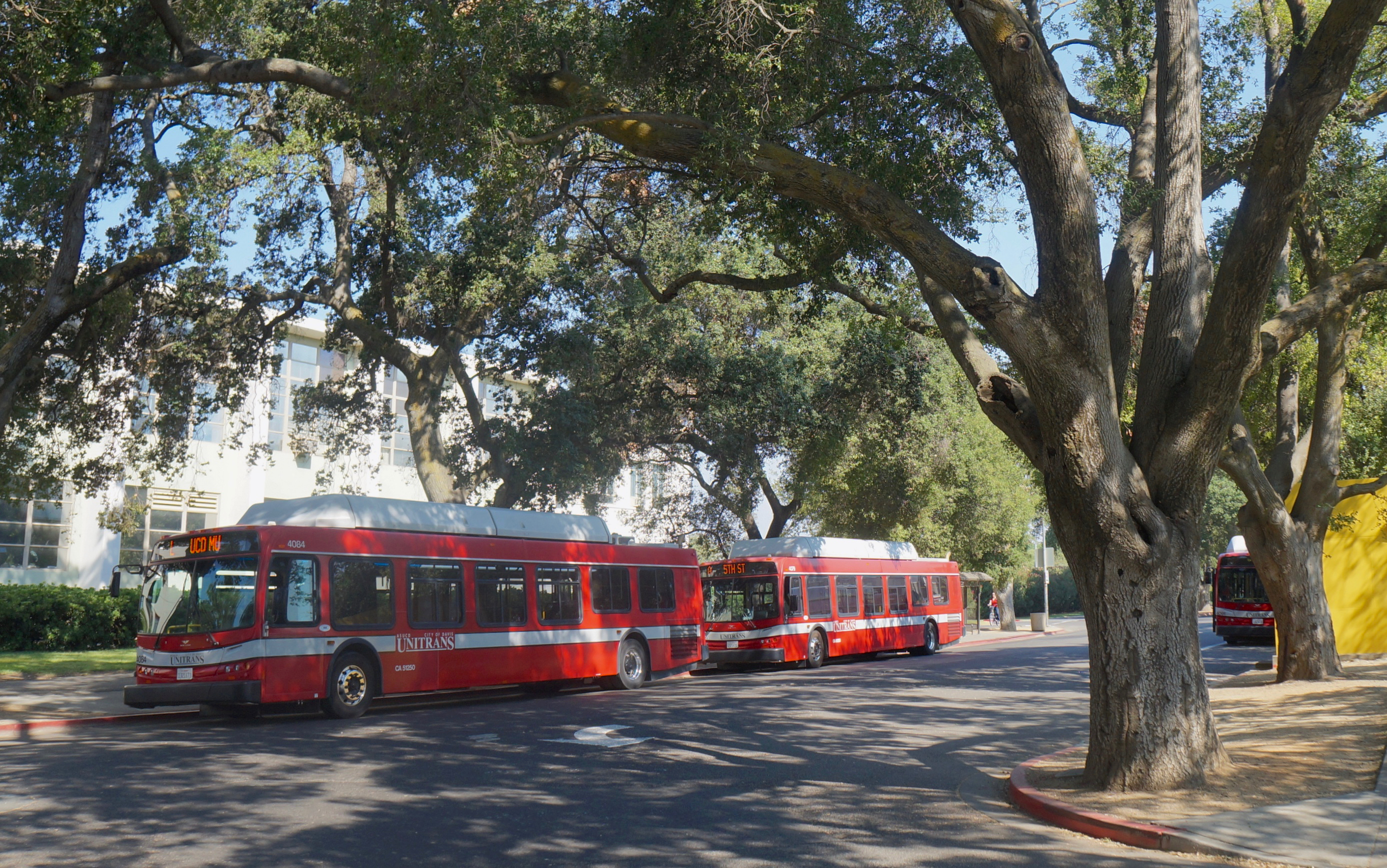 Unitrans buses 4084 and 4079, New Flyer C40LFR buses built in 2009, laying over at the Memorial Union bus terminal, at the University of California, Davis.